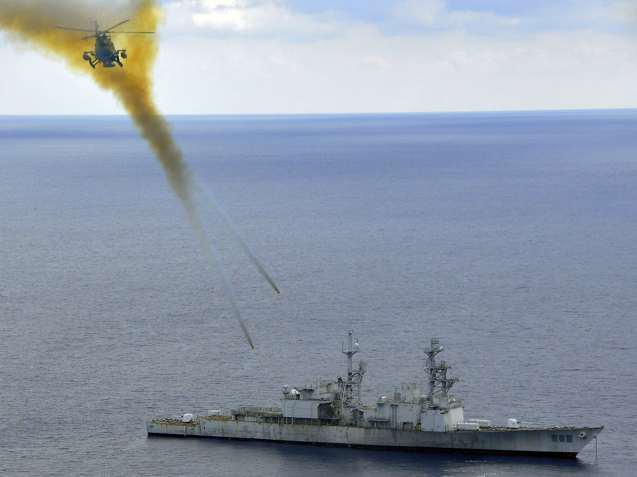 A Mexican navy Bo-105 Bölkow helicopter fires two 70 mm high-explosive rockets at the decommissioned Spruance-class destroyer ex-USS Conolly (DD 979) while under way in the Atlantic Ocean during a sinking exercise in support of UNITAS Gold.